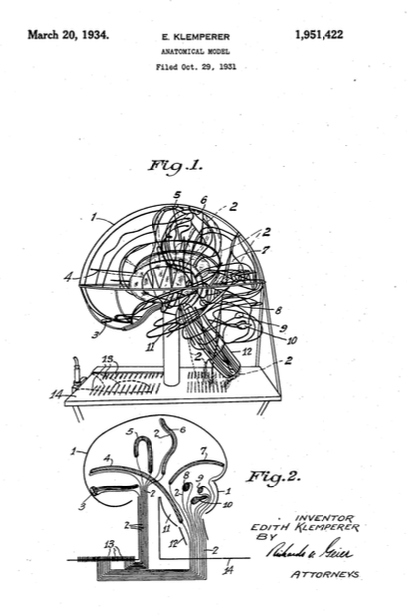 In 1934, Dr. Edith Klemperer of Vienna patented her Luminous Brain Model, an anatomical model of the brain made from glass tubes that would light up many colors.